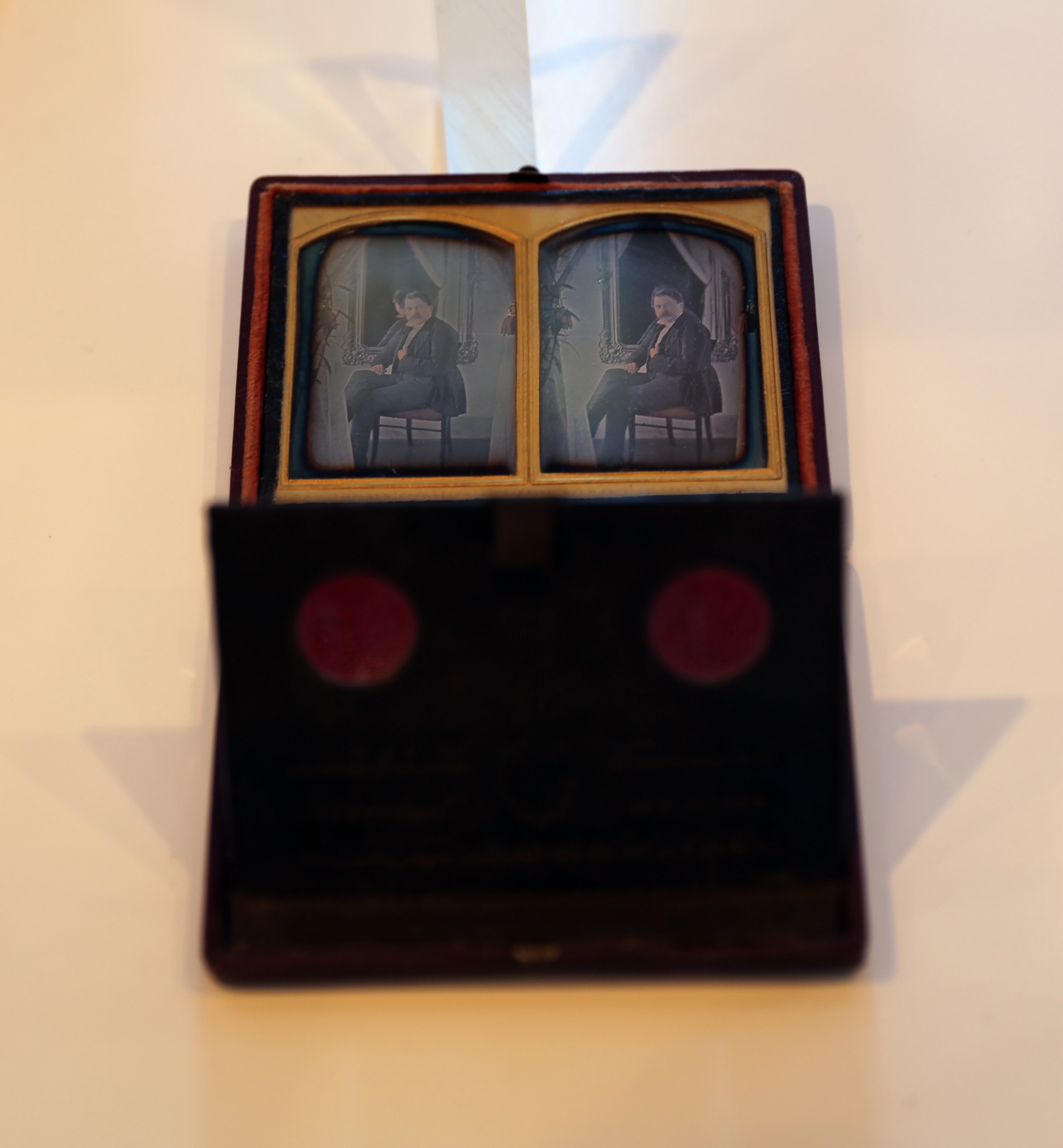 Stereoscope with stereo Daguerreotype "Man in front of Mirror" (from Vienna Technical Museum) - Ars Electronica 2013 at Brucknerhaus, Linz, Upper Austria.